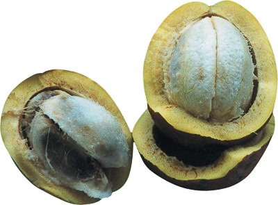 Bacuri fruit